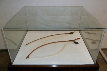 BACH.Bogen - Ausstellung BACHLÄUFE in Arnstadt, Germany